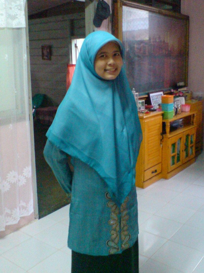 Obligatory hijab style according to Quran; the headscarf must cover the entire hair down to hip, and it must not show the curve of body. Only face and hand that is uncovered. Niqab and burqa is optional.